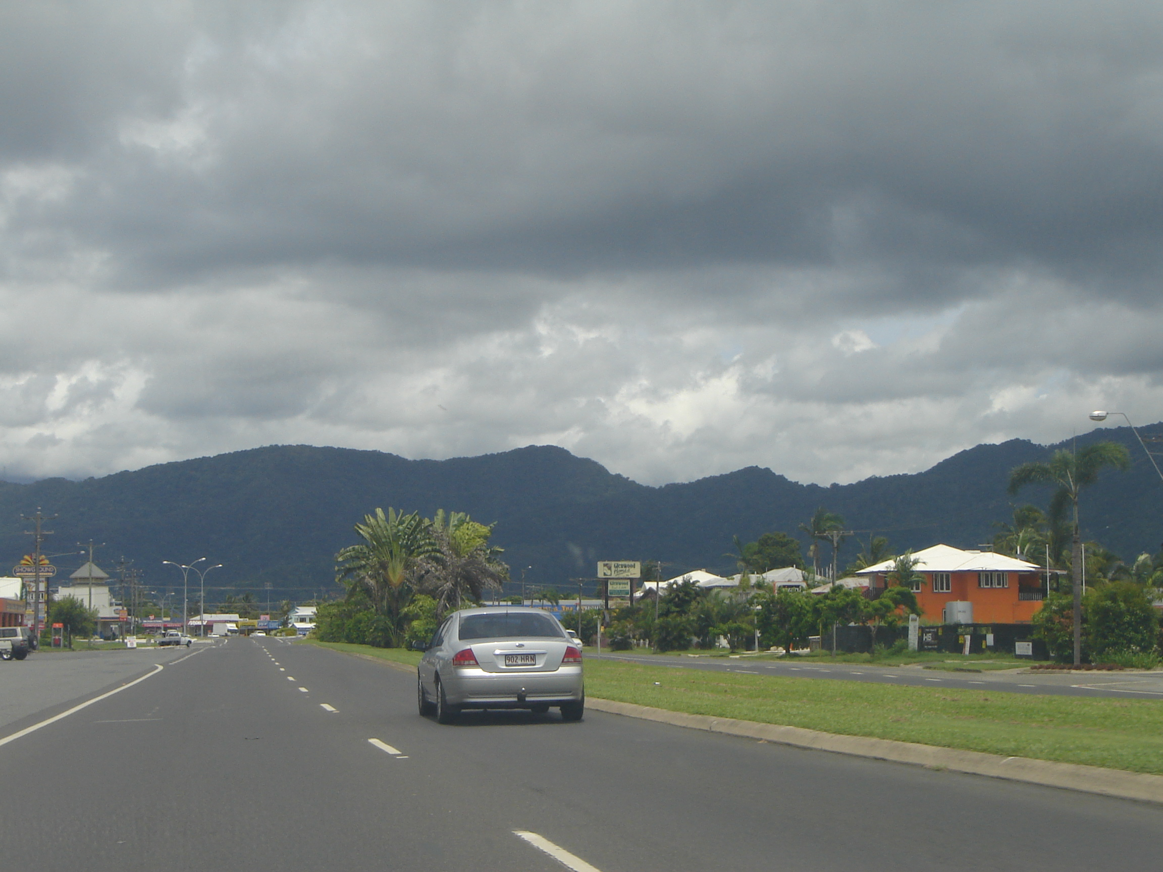 Bruce Highway just outside of Cairns. [This is Mulgrave Road (National route 1), looking south near the Showground Shopping Centre, a little north of the intersection with Buchan St. It is not the Bruce Hwy.] Photo taken by Frances76. To the left is the suburb of Bungalow and to the right is the suburb of Westcourt and the mountain in the distance is Mount Sheridan.